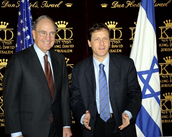 Special Envoy George Mitchell With Israeli Minister of Social Welfare Herzog at the King David Hotel, Jerusalem, 2009.